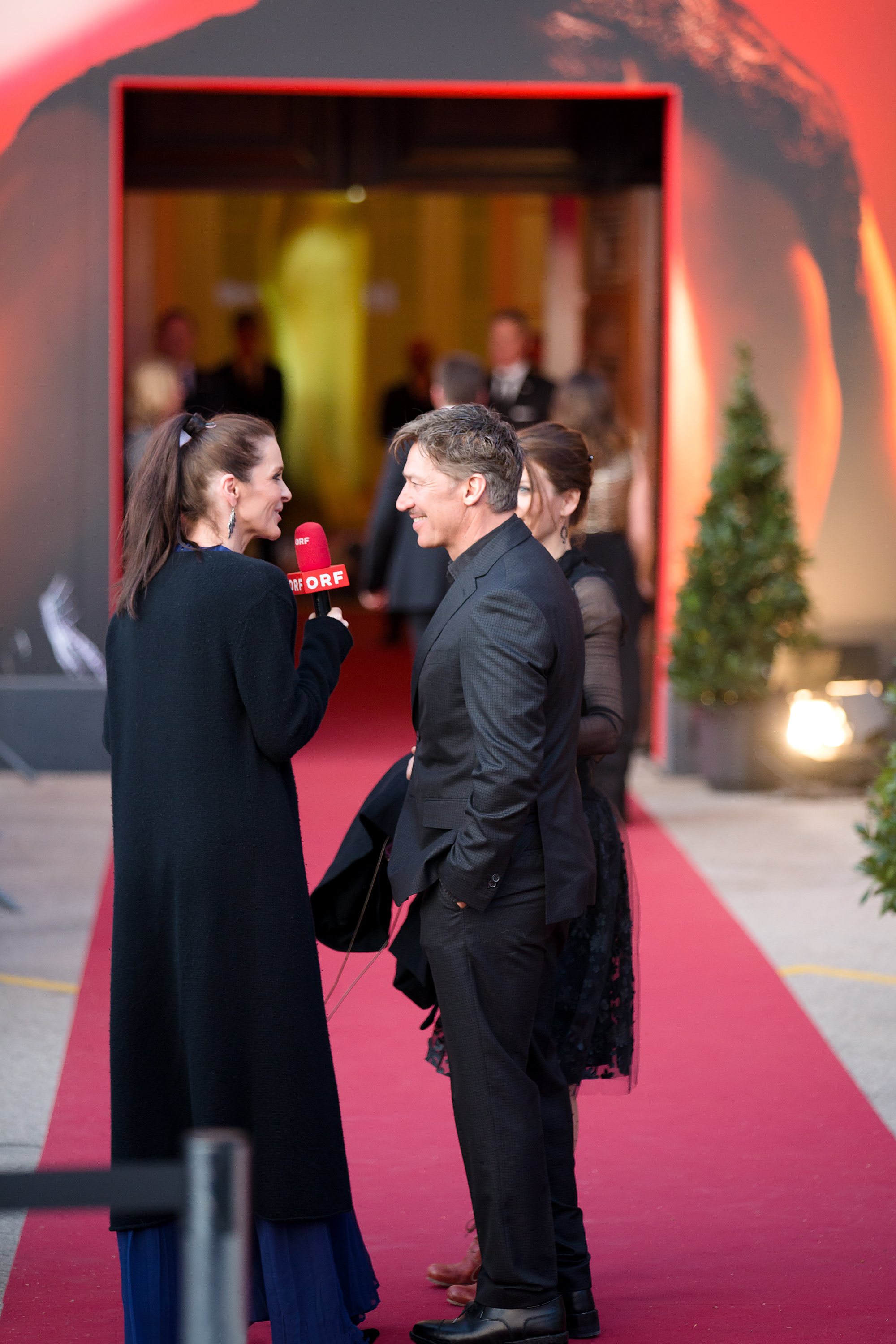 Tobias Moretti on the red carpet of the Romy TV awards 2016 at Hofburg Palace in Vienna, Austria.